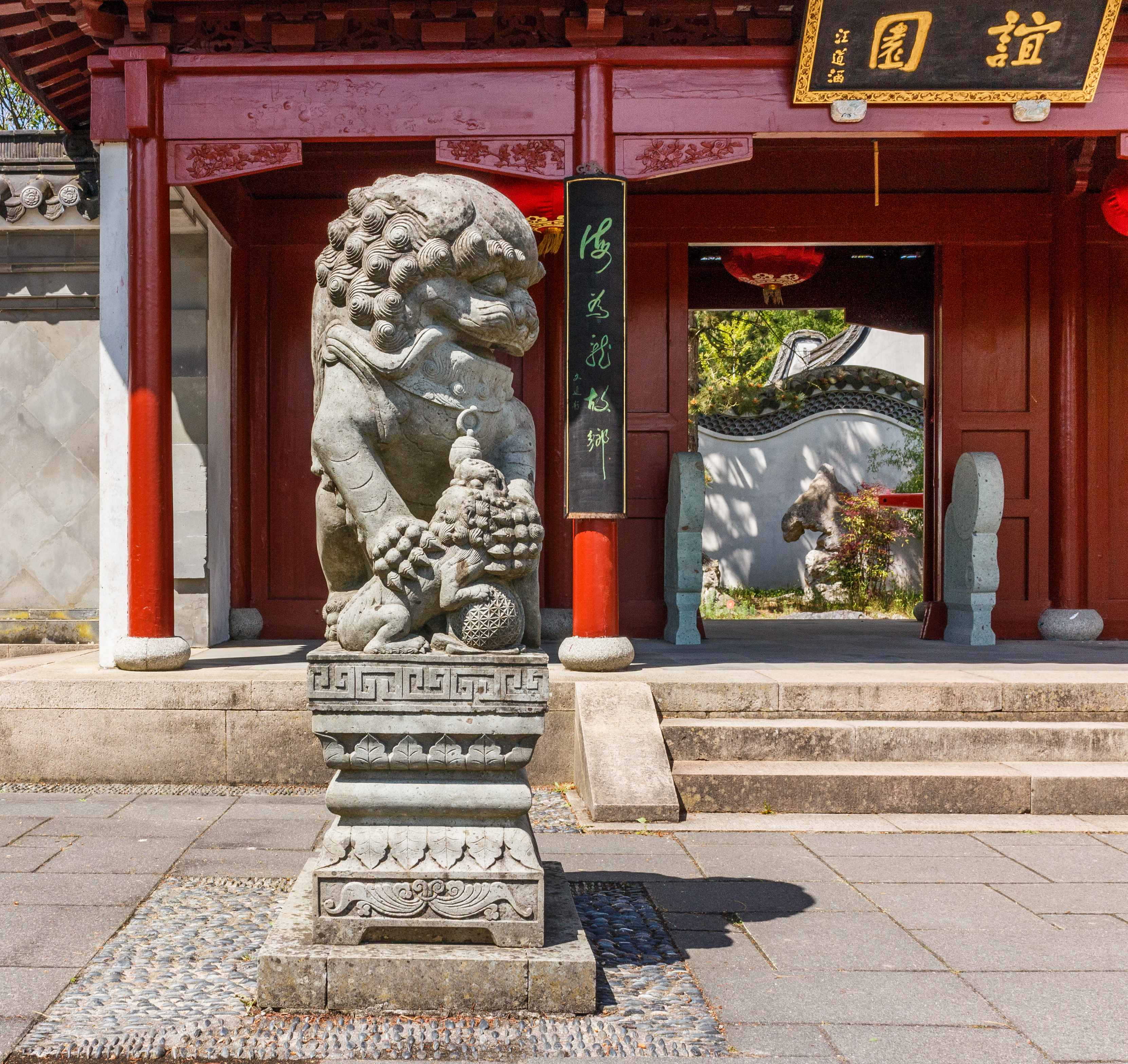 Lioness for entrance left. Location, Chinese Garden The Hidden Empire Ming in Hortus Haren in the Netherlands.